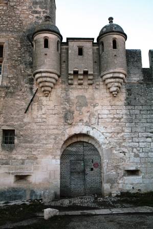 castle of Javon, Vaucluse, France